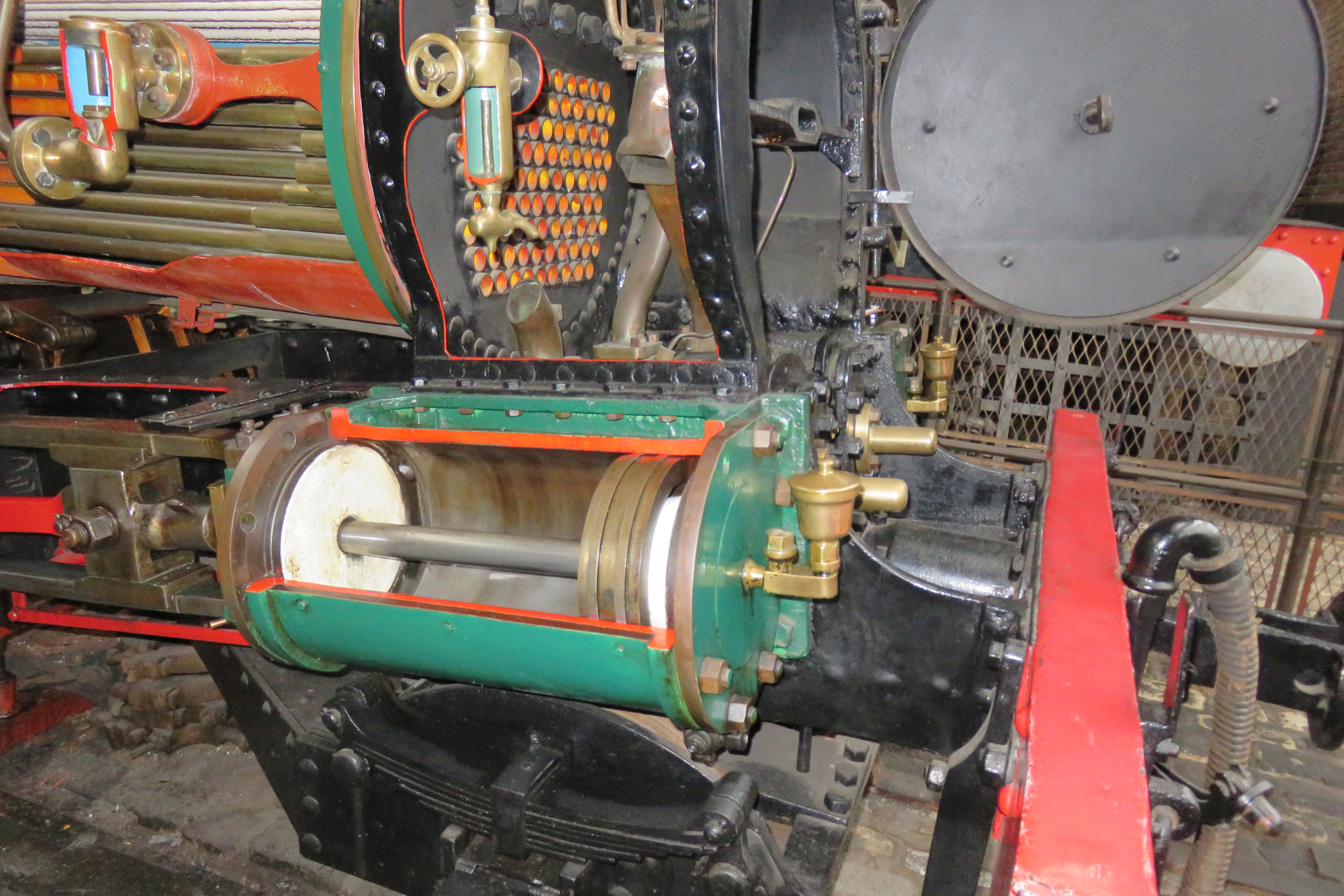 Beyer, Peacock and Company Locomotive , Built in 1873 at Museum of Science and Industry (MOSI) Manchester, United Kingdom. View of inside parts.